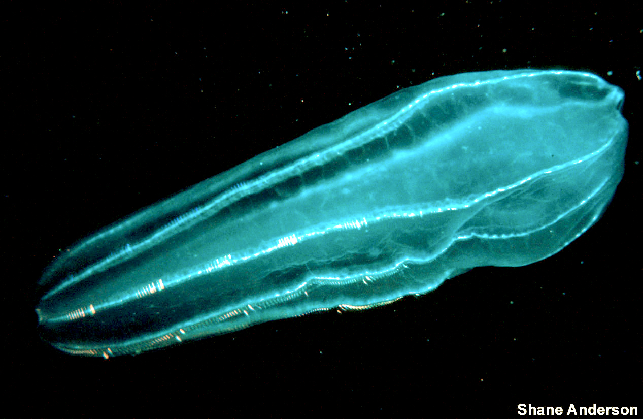 The zooplankton Beroidae are often found accompanying swarms of medusae in the water column. These tiny open water inhabitants use their hair-like projections called cilia to propel through the water. They are also carnivorous, making a feast of other ctenophores almost as large as itself. The zooplankton are an important food source for a variety of marine organisms and baleen whales.